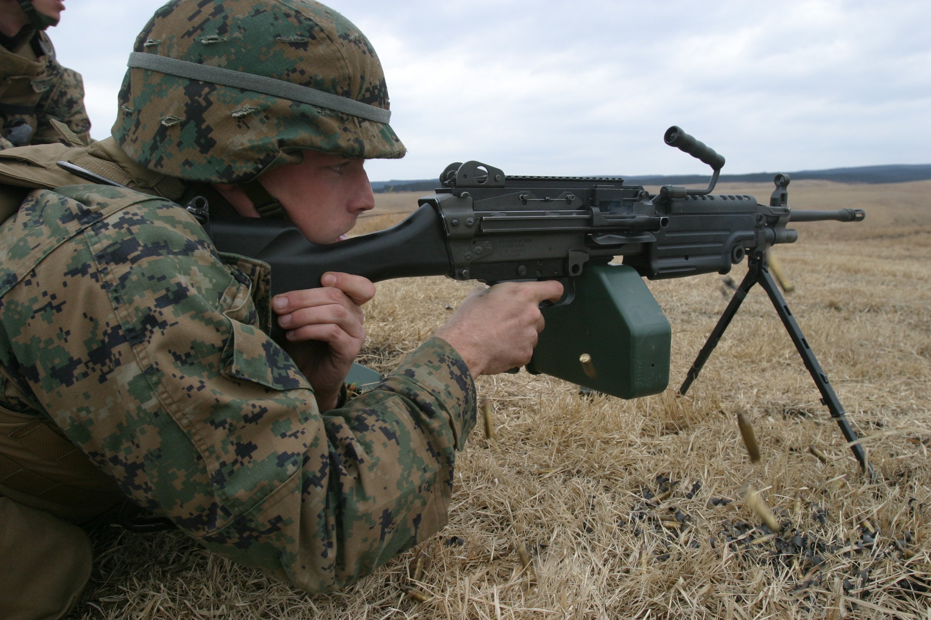 Private Jonathan Clendenin fires his M-249 Squad Automatic Weapon January 30 at the Oyanohara Maneuver Area, Kyushu, Japan, during Exercise Forest Light 2007. Photo ID: 200728203243 Submitting Unit: Marine Corps Base Camp Butler